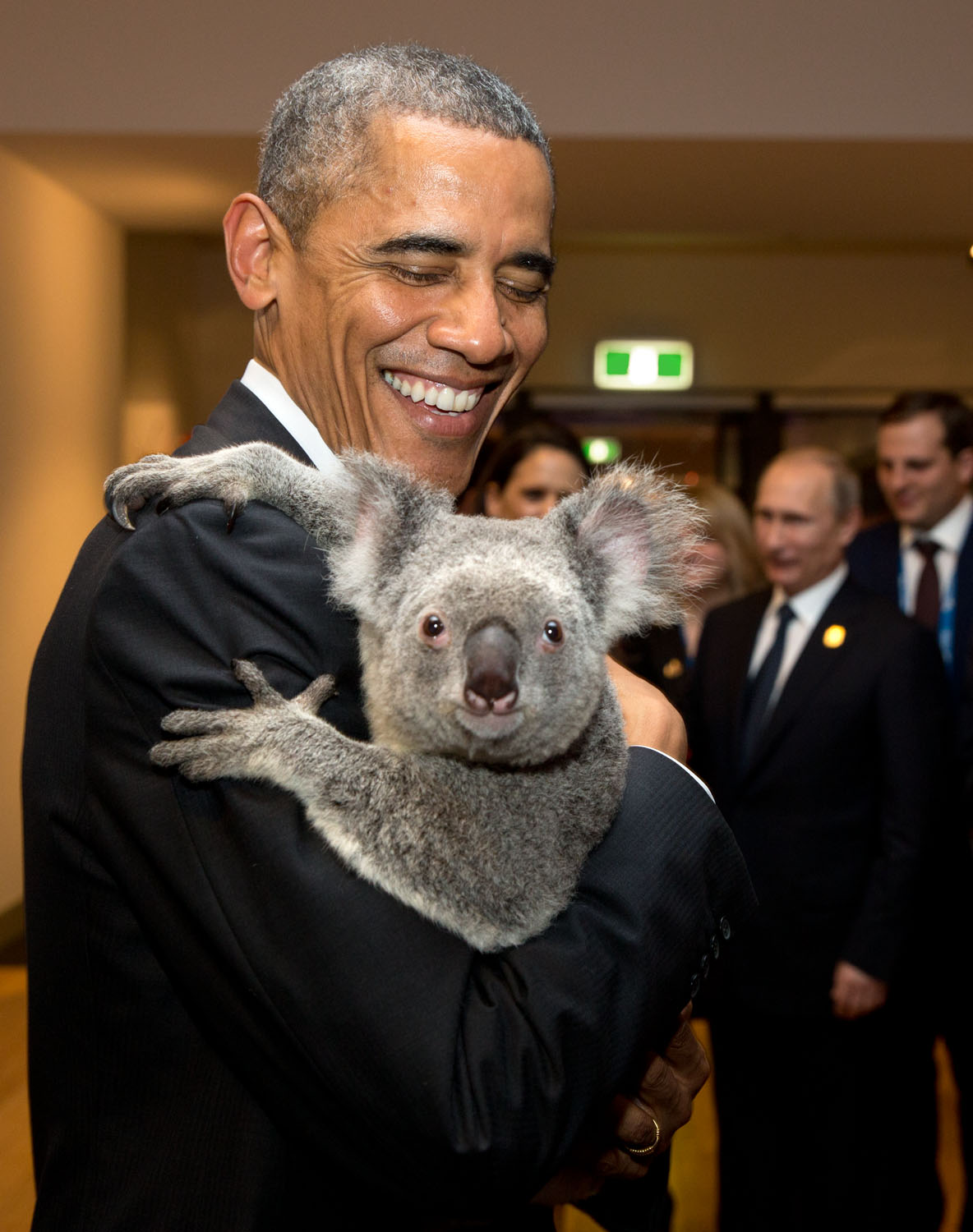 Nov. 15, 2014 "The President holds a koala backstage prior to the G20 Welcome to Country Ceremony at the Brisbane Convention and Exhibition Center in Brisbane, Australia." (Official White House Photo by Pete Souza)